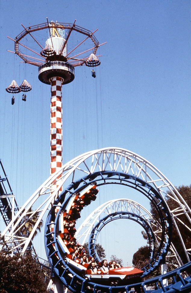 Photo from the Knott's Berry Farm Collection, Accession #2006/8. Photo courtesy Orange County Archives.